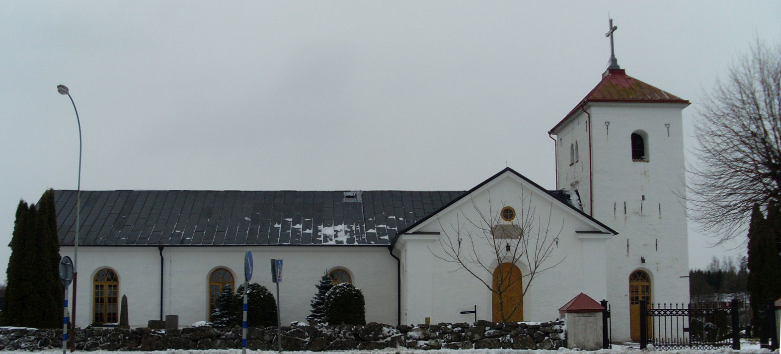 The church of Riseberga in southern Sweden